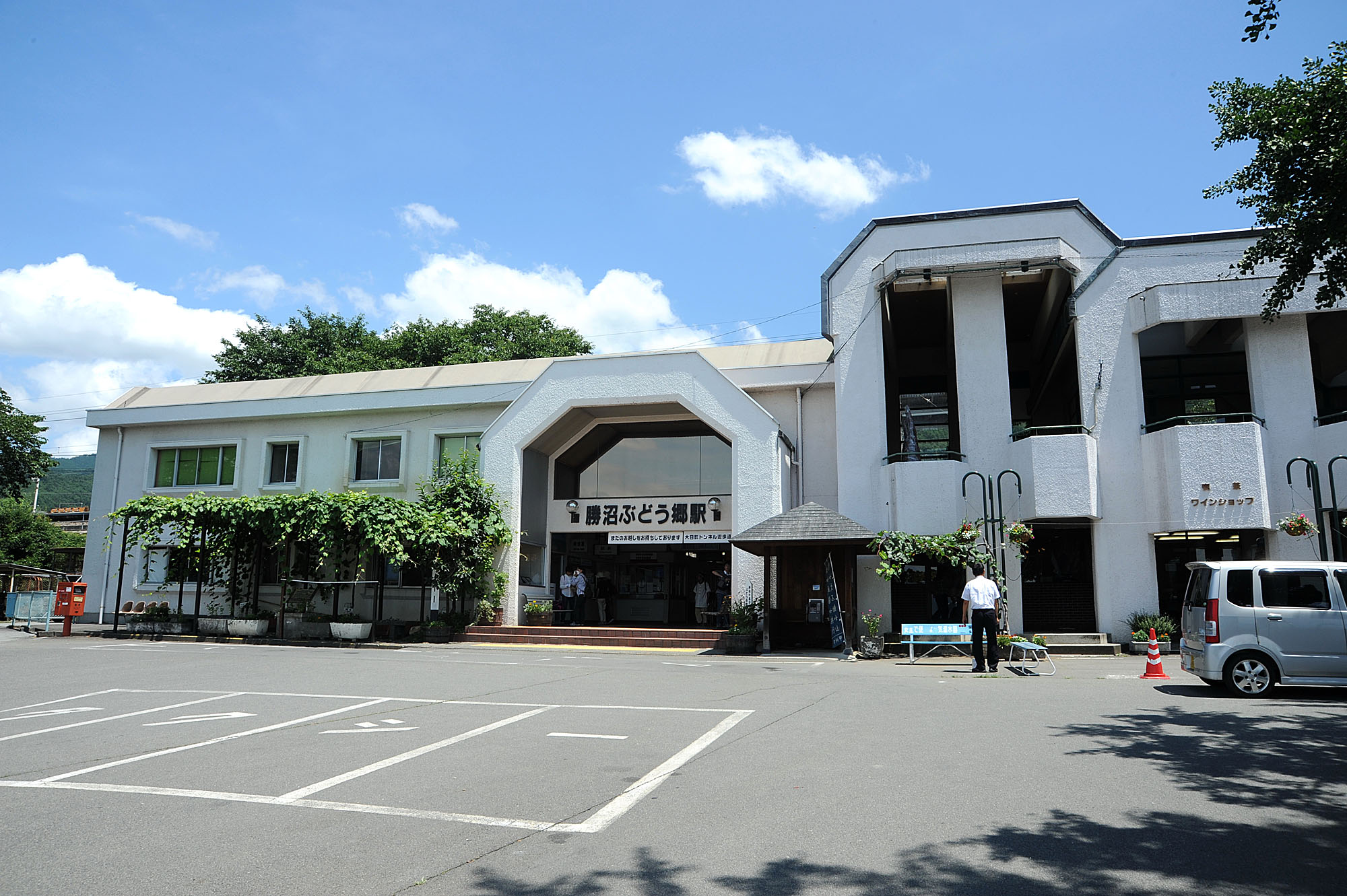 JR Katsunuma-budōkyō Station